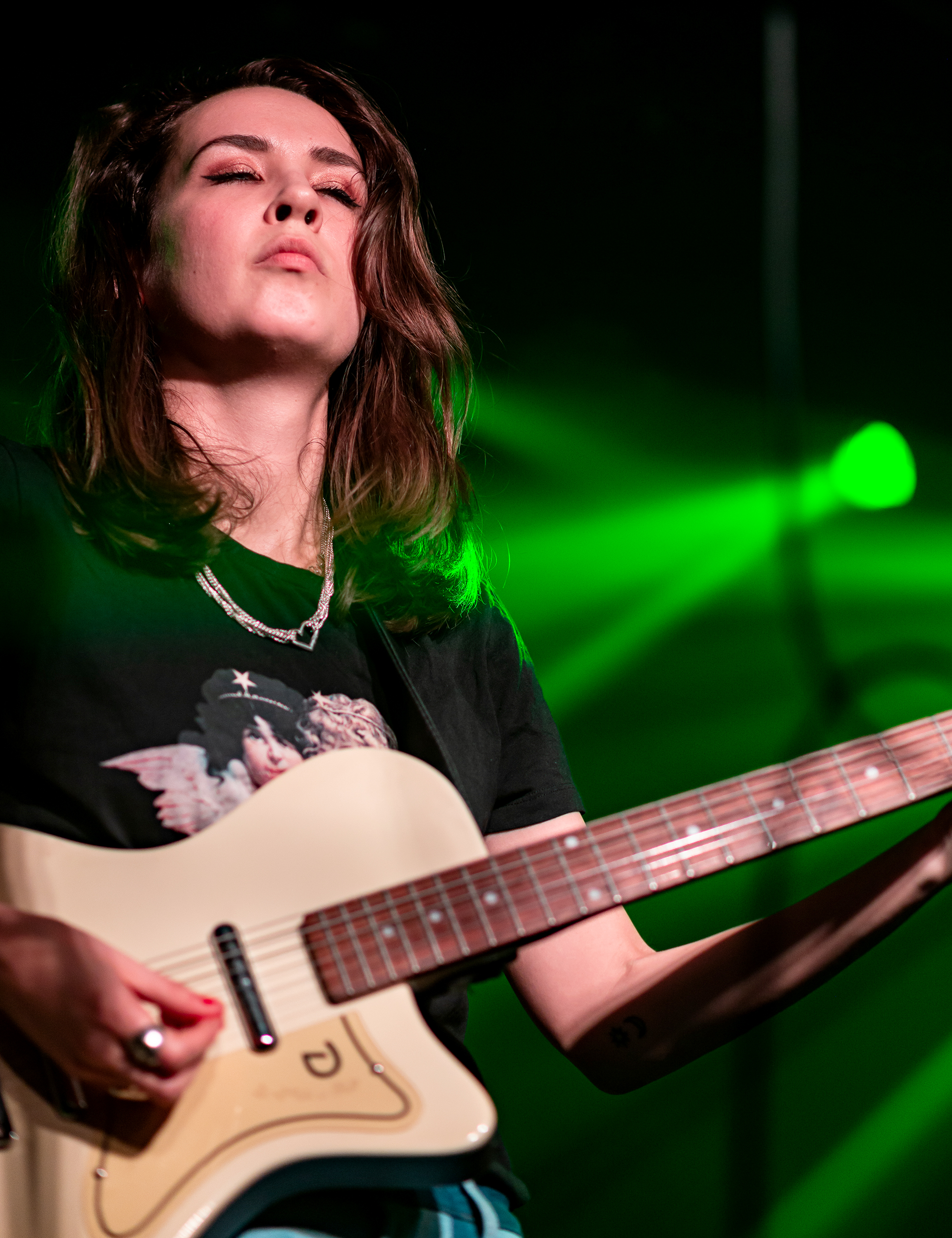 Findlay performing live at the Moroccan Lounge in Los Angeles, California, on Monday, March 12, 2018.